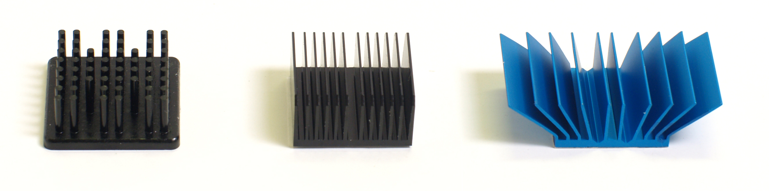 From left to right, pin fin, straight fin and flared heat sink designs.